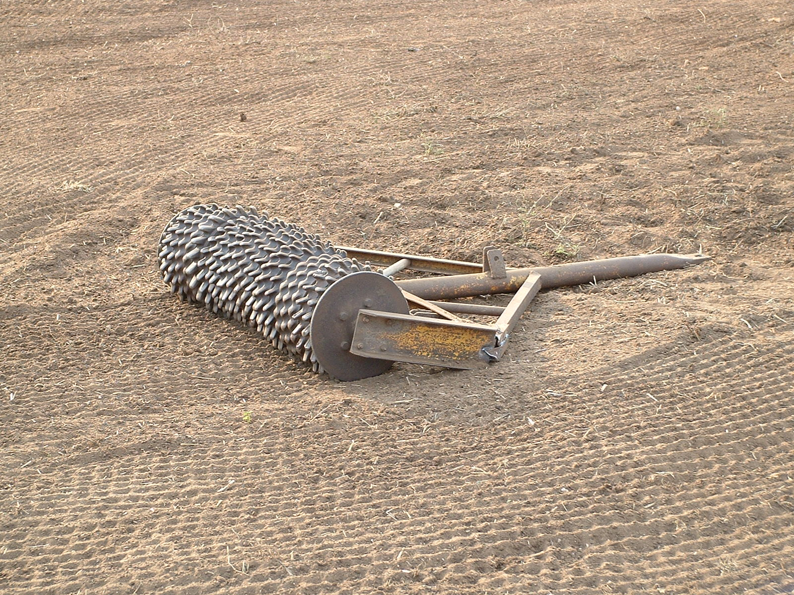 A crumbler roller on a harrowed field east of Karkur, Israel.